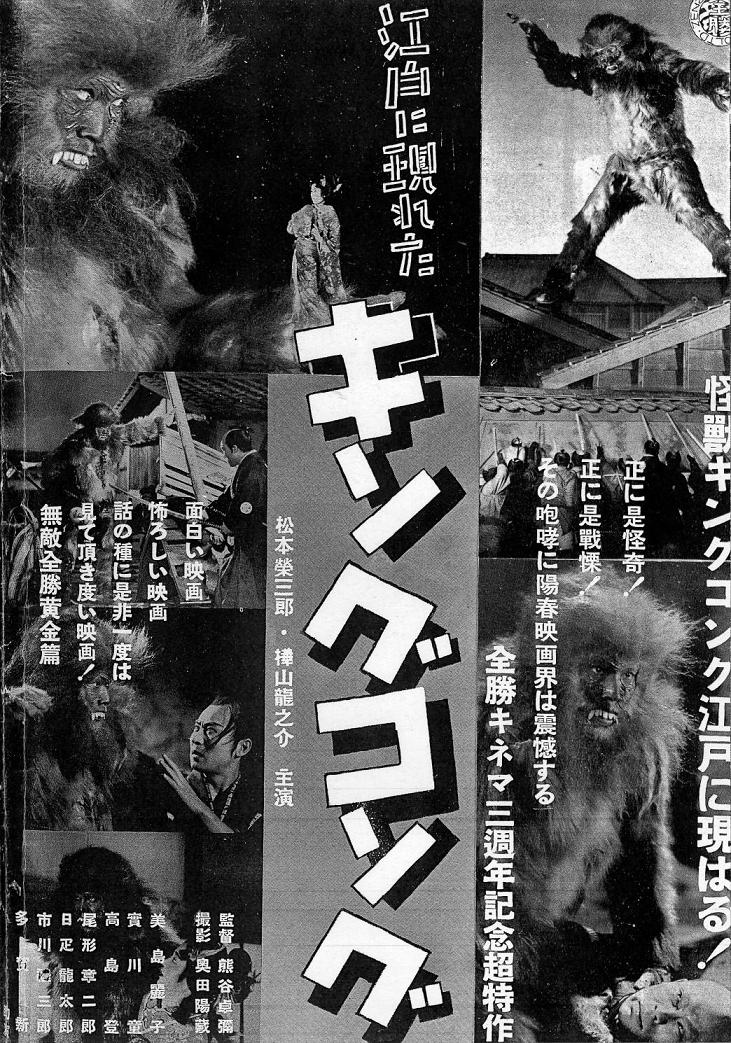 Japanese movie poster from film “King Kong Appears in Edo” from 1938 issue of Kinema Junpo magazine, made in 1938 by Zensho Kinema.